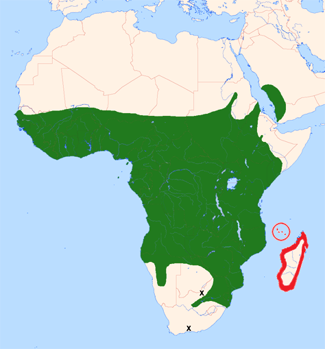 Distribution of African Palm Swift (Cypsiurus parvus). Range: dark green.Some additional recordings shown with crosses. Data Source: Phil Chantler, Gerald Driessens: A Guide to the Swifts and Tree Swifts of the World; Pica Press; Mountfield 2000; ISBN 1-873403-83-6